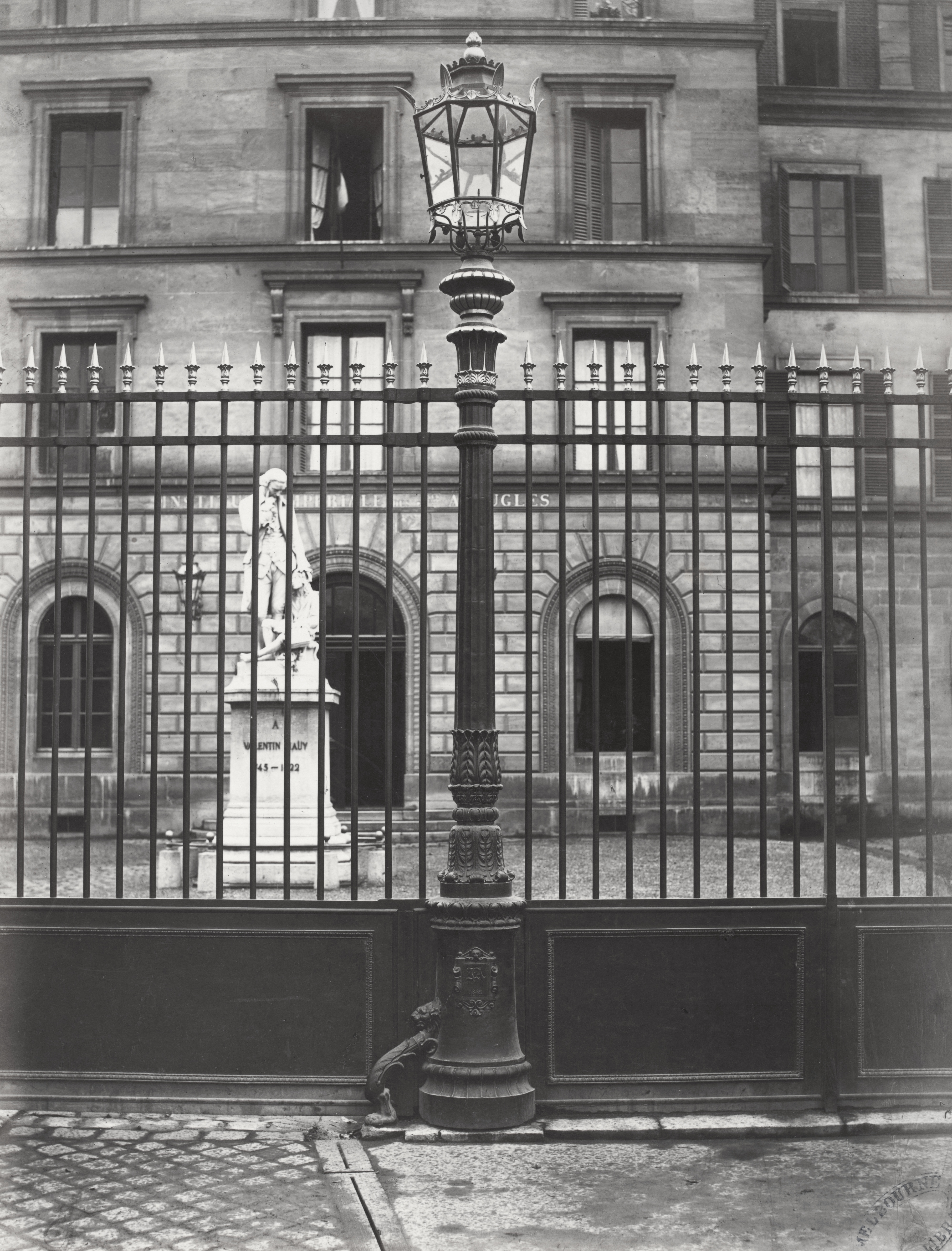 Single lamp on iron lamp stand incorporated into iron railing fence in front of brick paved courtyard and building, statue of Valentin Haüy with blind boy at his feet, in courtyard.